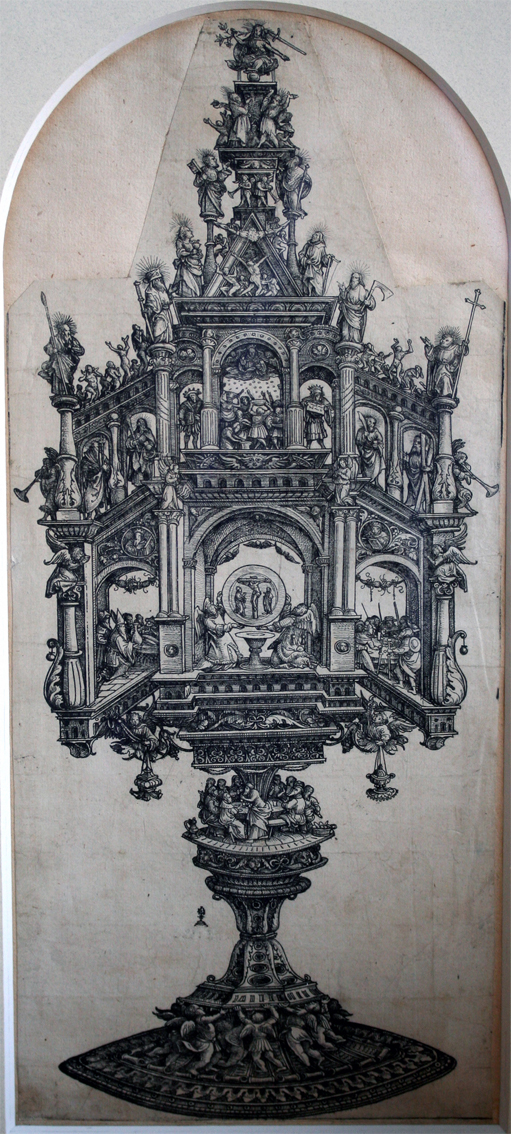 Hopfer, Daniel (ca 1470-1536): Design for a Monstrance, Two angels supporting the Host at centre; the 12 apostles in niches at upper centre. Christ and last Judgement at top. (B. VIII, 122, Holl.133, i/ii, before the Funck number), etching, a good impression, trimmed on or just within the platemark on three sides and to subject above, a rubbed spot below emblem (initials “D.H” erased), other light abrasion, creases and light stains, glued at edges to another sheet. 360 X 156mm.